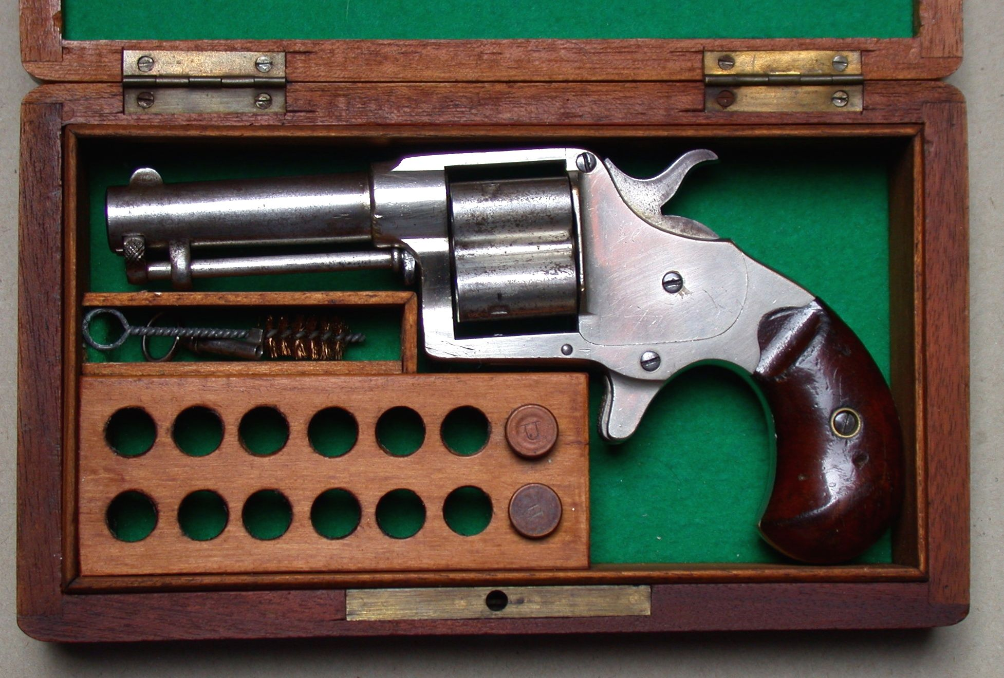 Colt Cloverleave House Pistol cal .41